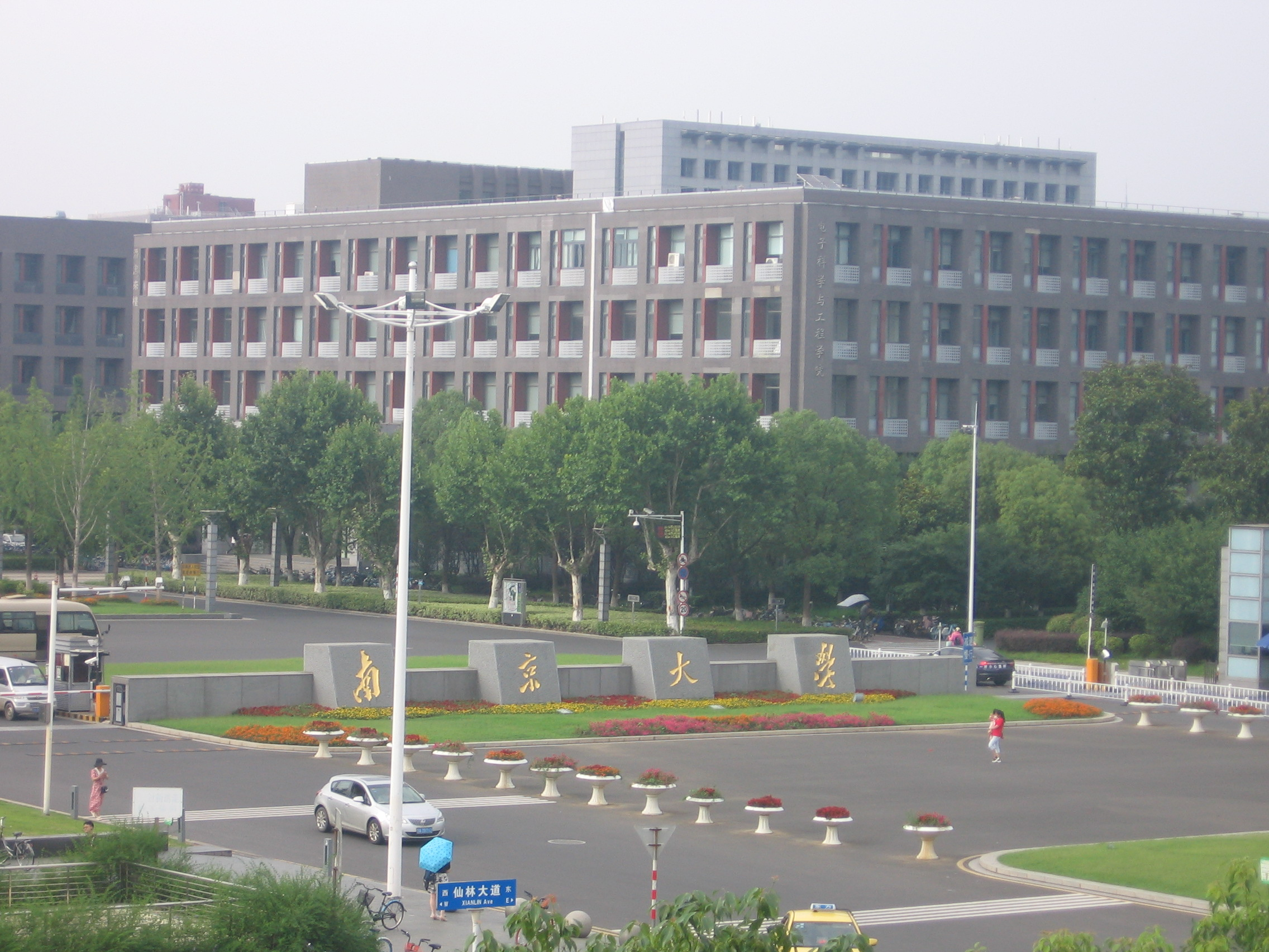 Overlooking Xianlin campus from a nearby metro station